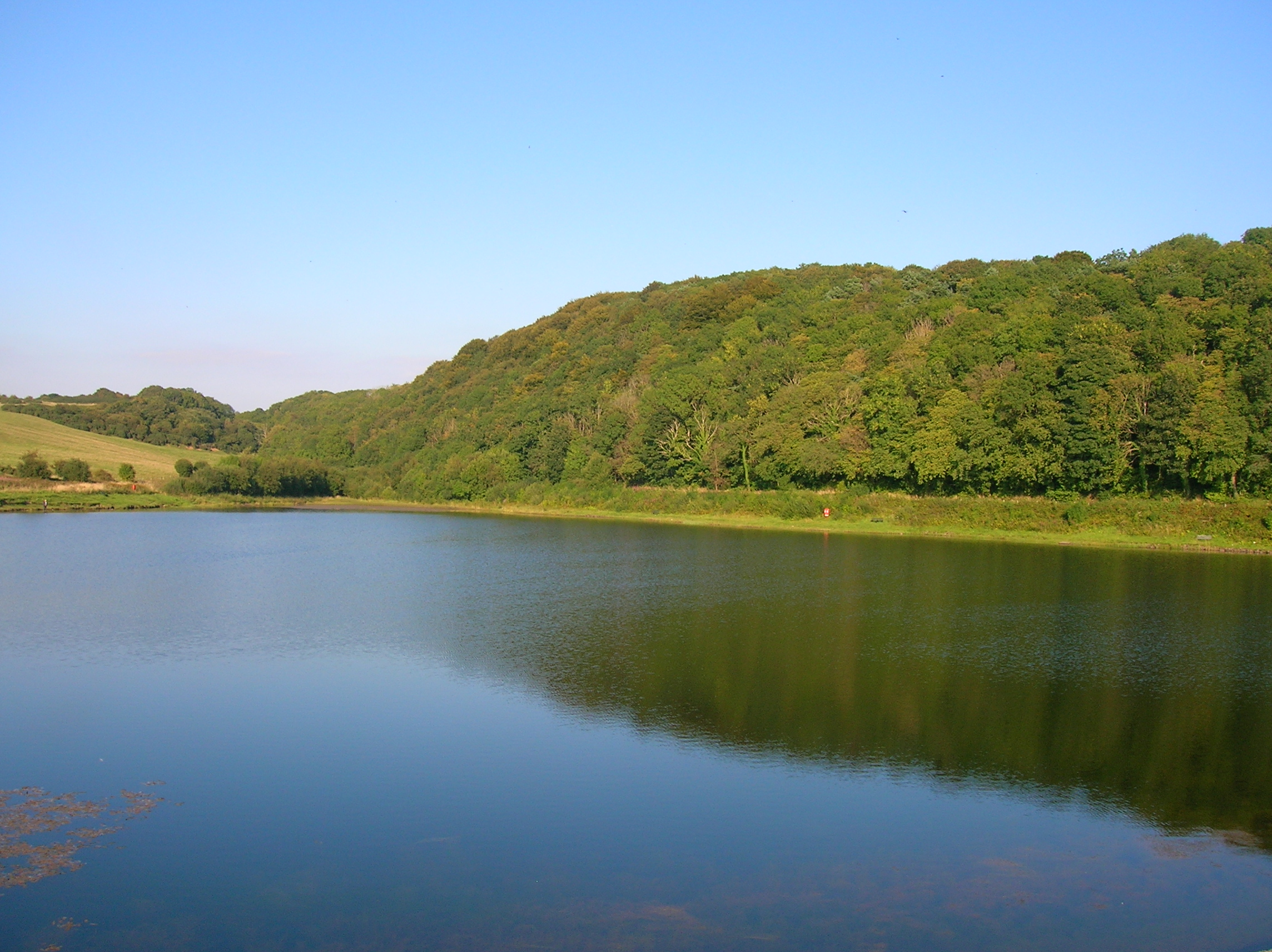 Aught Woods and Collennan Reservoir near Loans / Dundonald, South Ayrshire, Scotland.